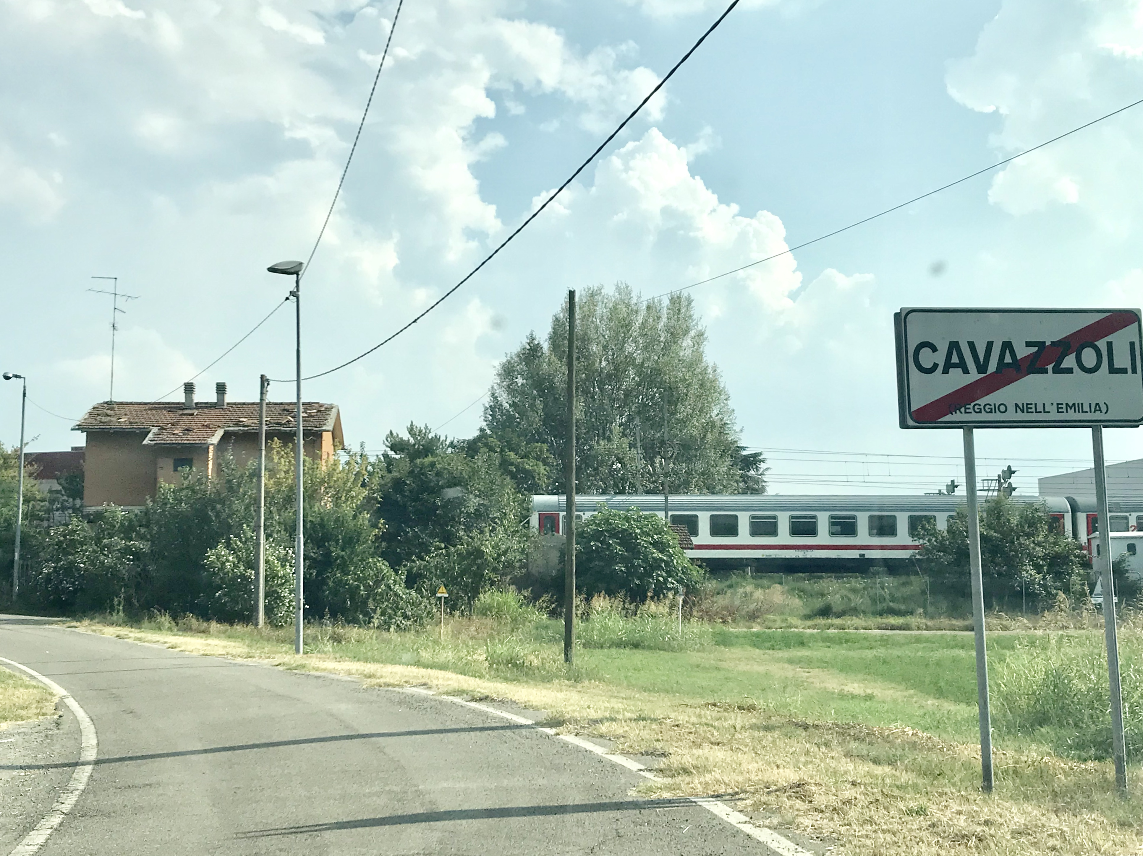 Intercity train’s passing through Cavazzoli, Reggio Emilia, Italy